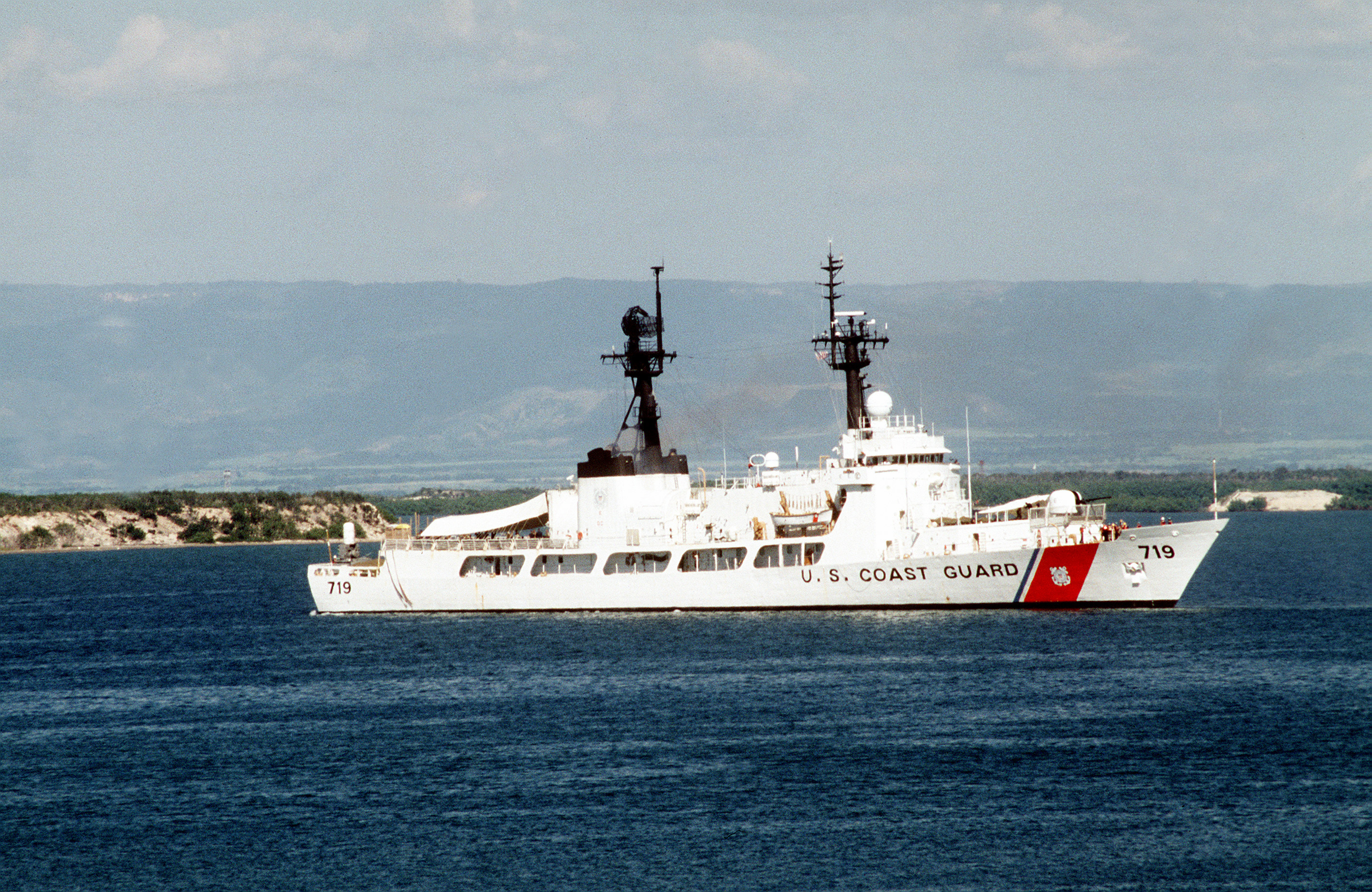 The U.S. Coast Guard Cutter BOUTWELL leaves the Haitian safe haven with Haitian repatriates on board.